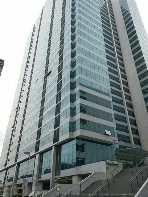 Reve Systems Singapore office